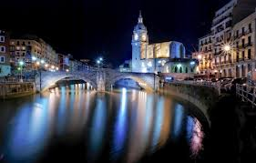 San Antón bridge, Bilbao